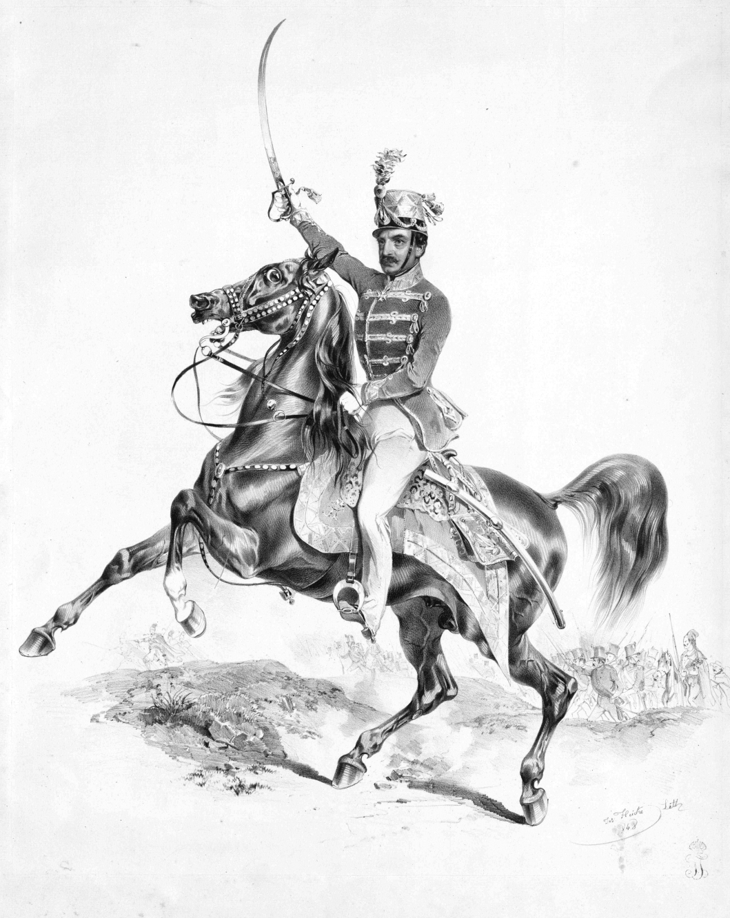 Jellacic de Buzim, Josef Graf (1801 - 1859)